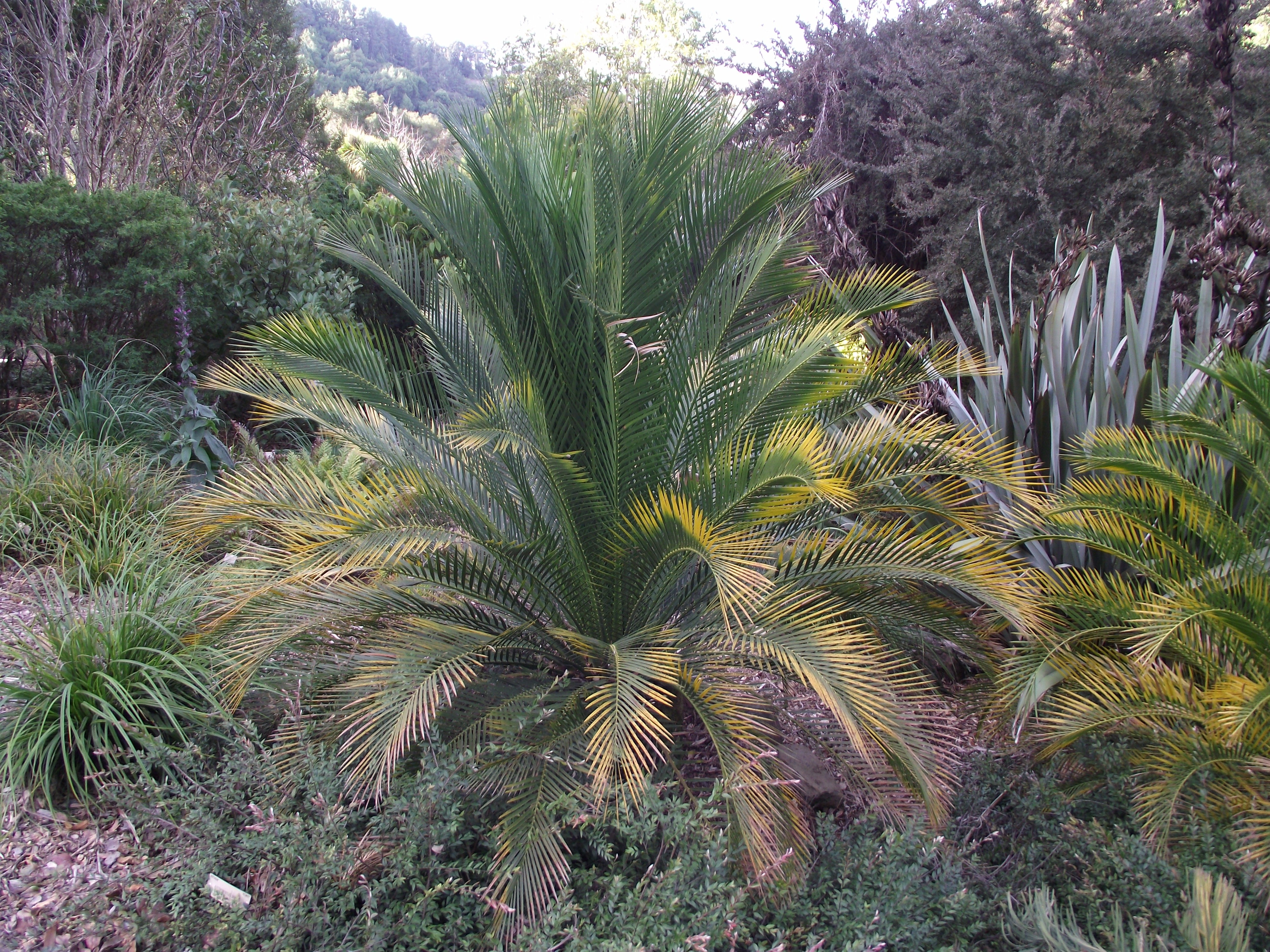 Macrozamia moorei at the UC Botanical Garden, Berkeley, California, USA. Identified by sign.